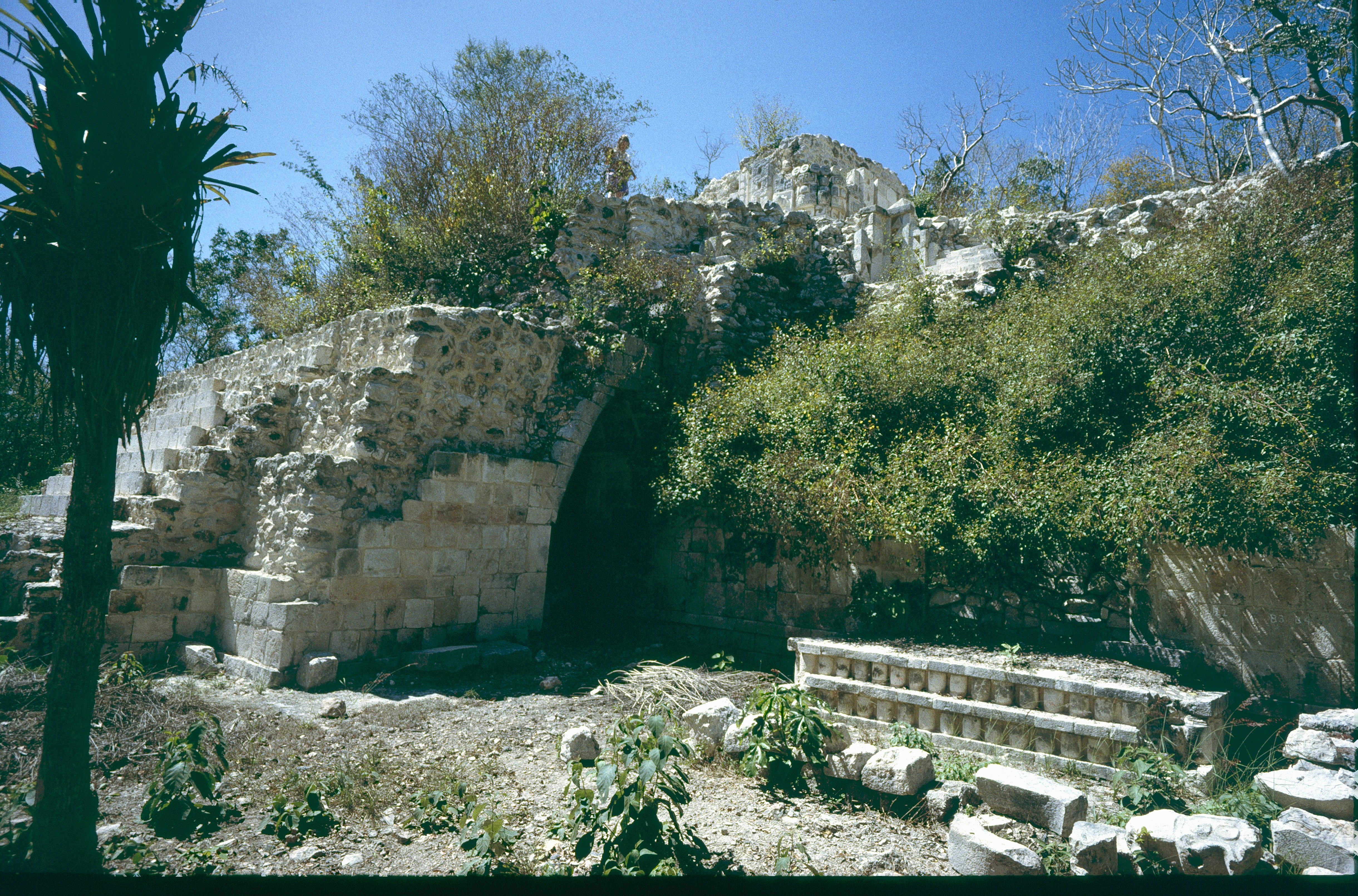 Kabah, Yucatan, Mexico: building Manos Rojas, staircase for the second story